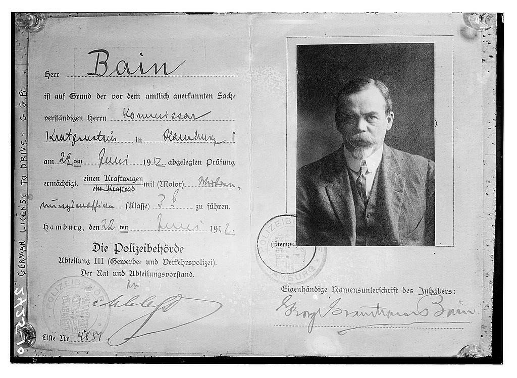 Bain News Service, publisher. German drivers license, George Grantham Bain between 1910 and 1915 date QS:P,+1910-00-00T00:00:00Z/8,P1319,+1910-00-00T00:00:00Z/9,P1326,+1915-00-00T00:00:00Z/9 1 negative : glass ; 5 x 7 in. or smaller. Notes: Title from unverified data provided by the Bain News Service on the negatives or caption cards. Forms part of: George Grantham Bain Collection (Library of Congress). Format: Glass negatives. Repository: Library of Congress, Prints and Photographs Division, Washington, D.C. 20540 USA, General information about the Bain Collection is available at Persistent URL: Call Number: LC-B2- 2425-10